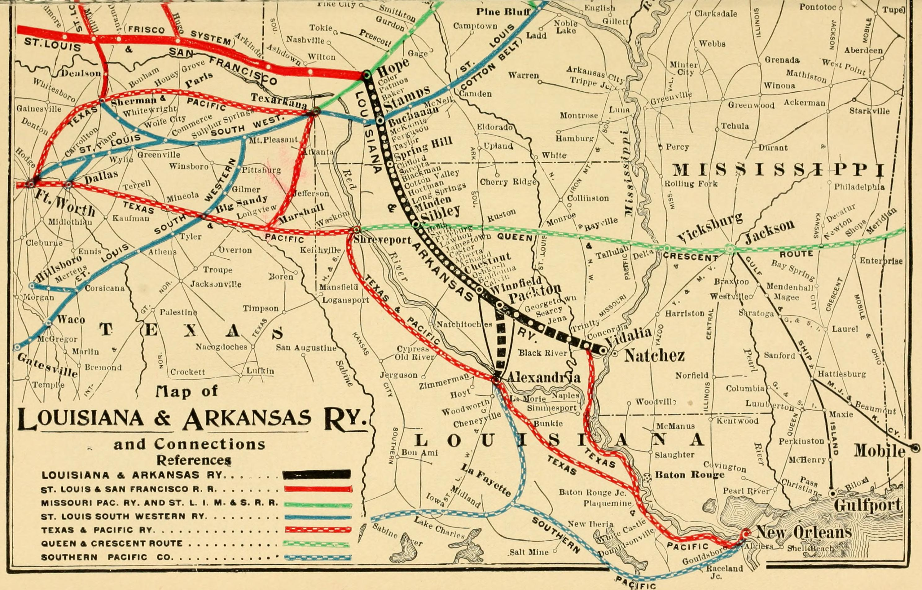 Title: Louisiana and Arkansas railway; its territory industries and financial condition .. Year: 1904 (1900s) Authors: (Anderson, Arthur Marvin), 1880- (from old catalog) Subjects: Publisher: New York and Boston Text Appearing Before Image: ' Text Appearing After Image: 26 LOUISIANA AND ARKANSAS RAILWAY Frisco systems, affording competing routes for traffic to theNorth, East and West. At Stamps it connects with theSt. Louis Southwestern (Cotton Belt) and business canbe delivered to that line for transportation in the same threedirections. The Viclcsburg, Shreveport & Pacific (Oueen& Crescent) system, extending east and west, is crossed atSibley. From Chestnut, La., the Louisiana & Northwestextends north and south. From Winnfield the ArkansasSouthern runs north to a connection with the Queen &Crescent system and is building south to Alexandria. Atthe same point the Louisiana Railway & Navigation Com-pany affords a southern outlet to New Orleans. At George-town the Iron Mountain is crossed, affording an additionalNew Orleans connection, while on the projected extensioneast to Natchez, the Texas & Pacific will be met at Con-cordia and the Yazoo & Mississippi Valley at Natchez,giving four competitive routes for south-bound tra